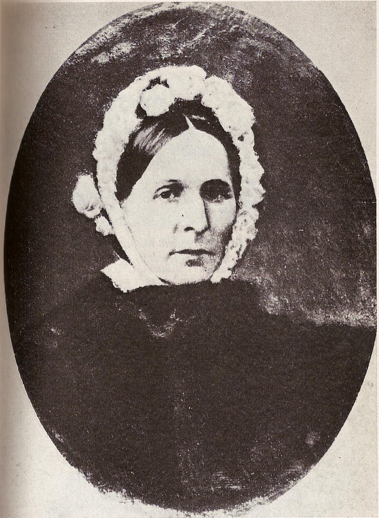 Mazzini's mother (Maria Giacinta Drago Mazzini)